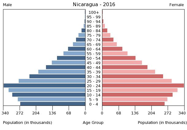 The population pyramid of Nicaragua illustrates the age and sex structure of population and may provide insights about political and social stability, as well as economic development. The population is distributed along the horizontal axis, with males shown on the left and females on the right. The male and female populations are broken down into 5-year age groups represented as horizontal bars along the vertical axis, with the youngest age groups at the bottom and the oldest at the top. The shape of the population pyramid gradually evolves over time based on fertility, mortality, and international migration trends.